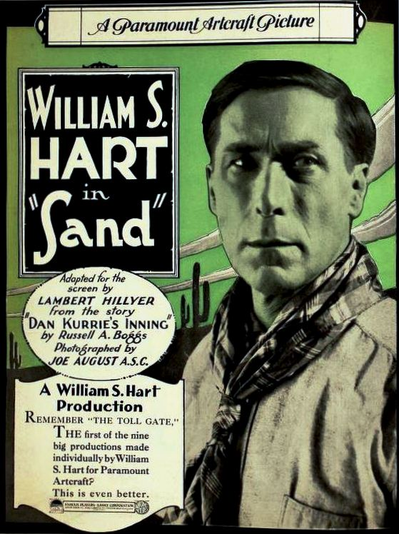 Advertisement for the American western film Sand (1920) with William S. Hart, on page 4882 of the June 19, 1920 Motion Picture News.